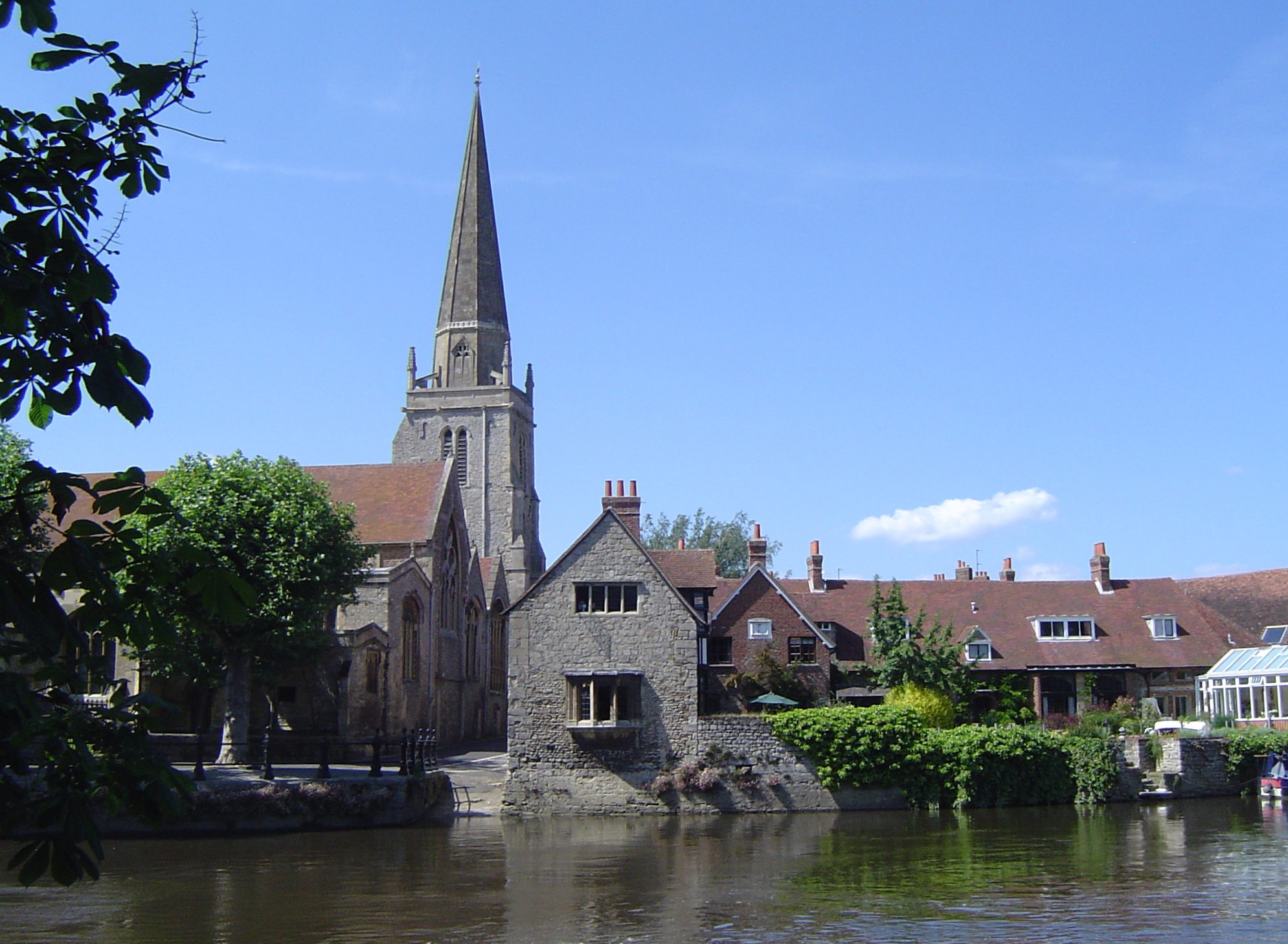 River Thames at Abingdon, Oxfordshire (formerly Berkshire), with the Church of England parish church of St Helen and its 13th century steeple in the background